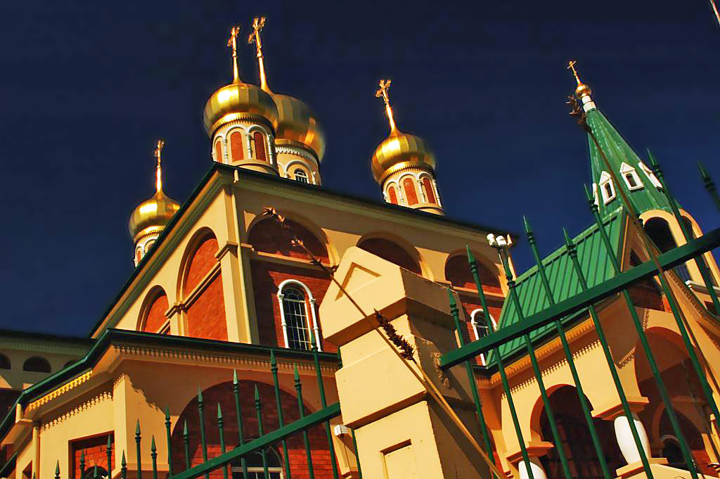 orthodox photography